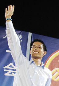 Gerald Giam with members of the Workers' Party of Singapore who contested East Coast Group Representation Constituency during the Singaporean general election, 2011, at a rally at Bedok Stadium.